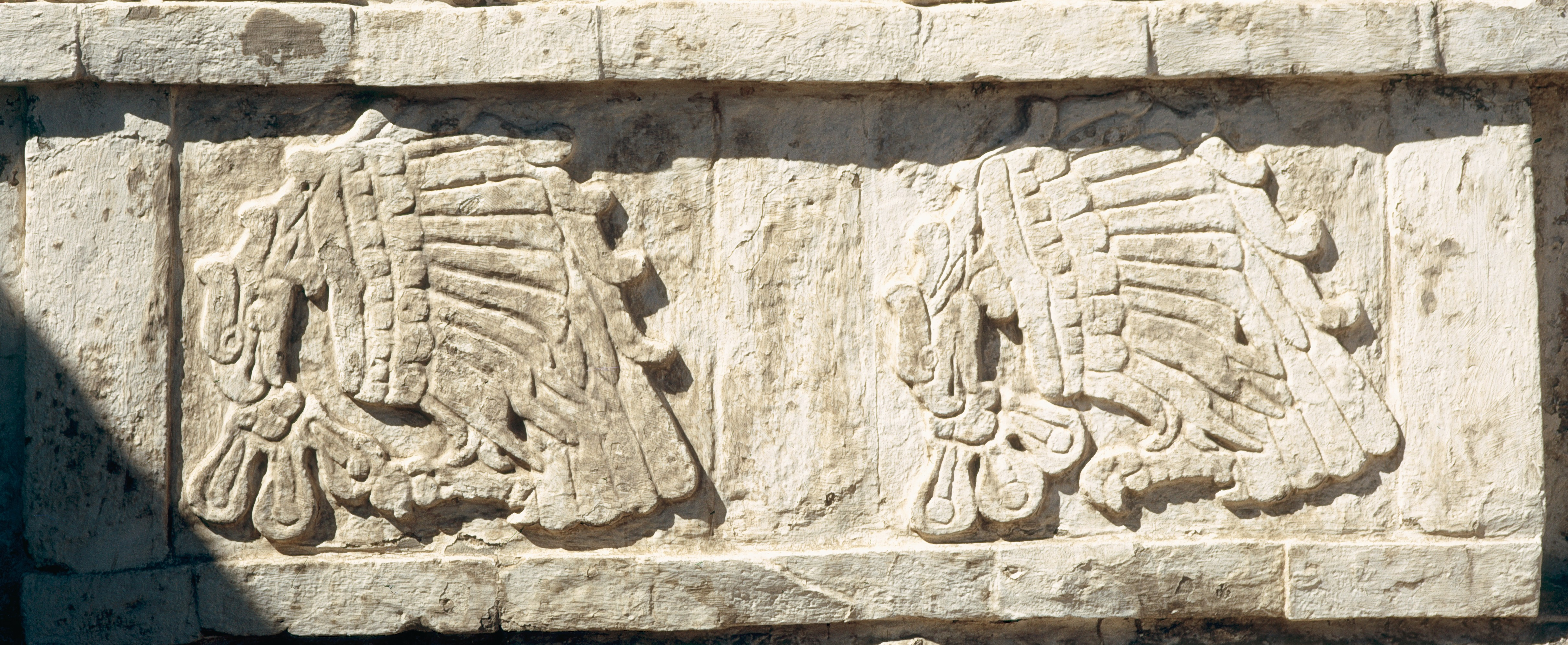 Tula, Hidalgo, Mexico: Pyramid B, relief of eagles